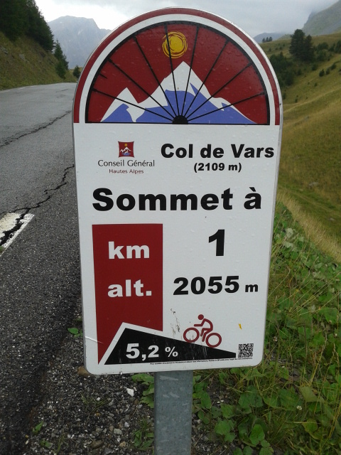 Mountain pass cycling milestone at the Col de Vars in France ascending from Guillestre